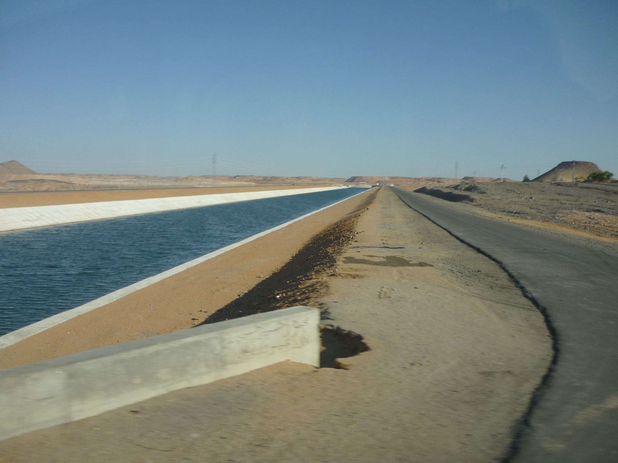 Sheikh Zayed canal of New Valley project, Libyan desert, Egypt